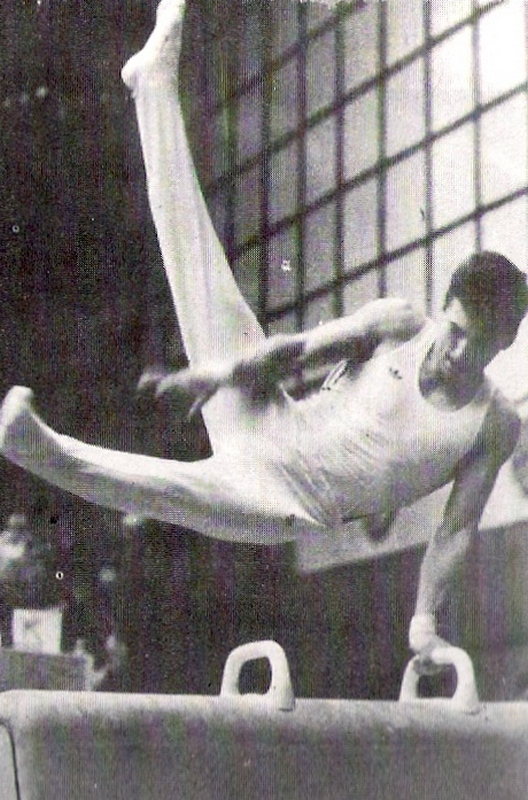 Marius Gherman, 1988 Olympics